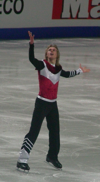 Karel Zelenka on the 2007 European Figure Skating Championships in Warsaw - free skate